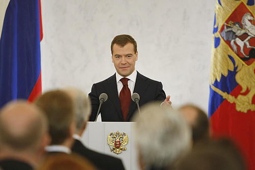 GRAND KREMLIN PALACE, MOSCOW. Annual Address to the Federal Assembly.